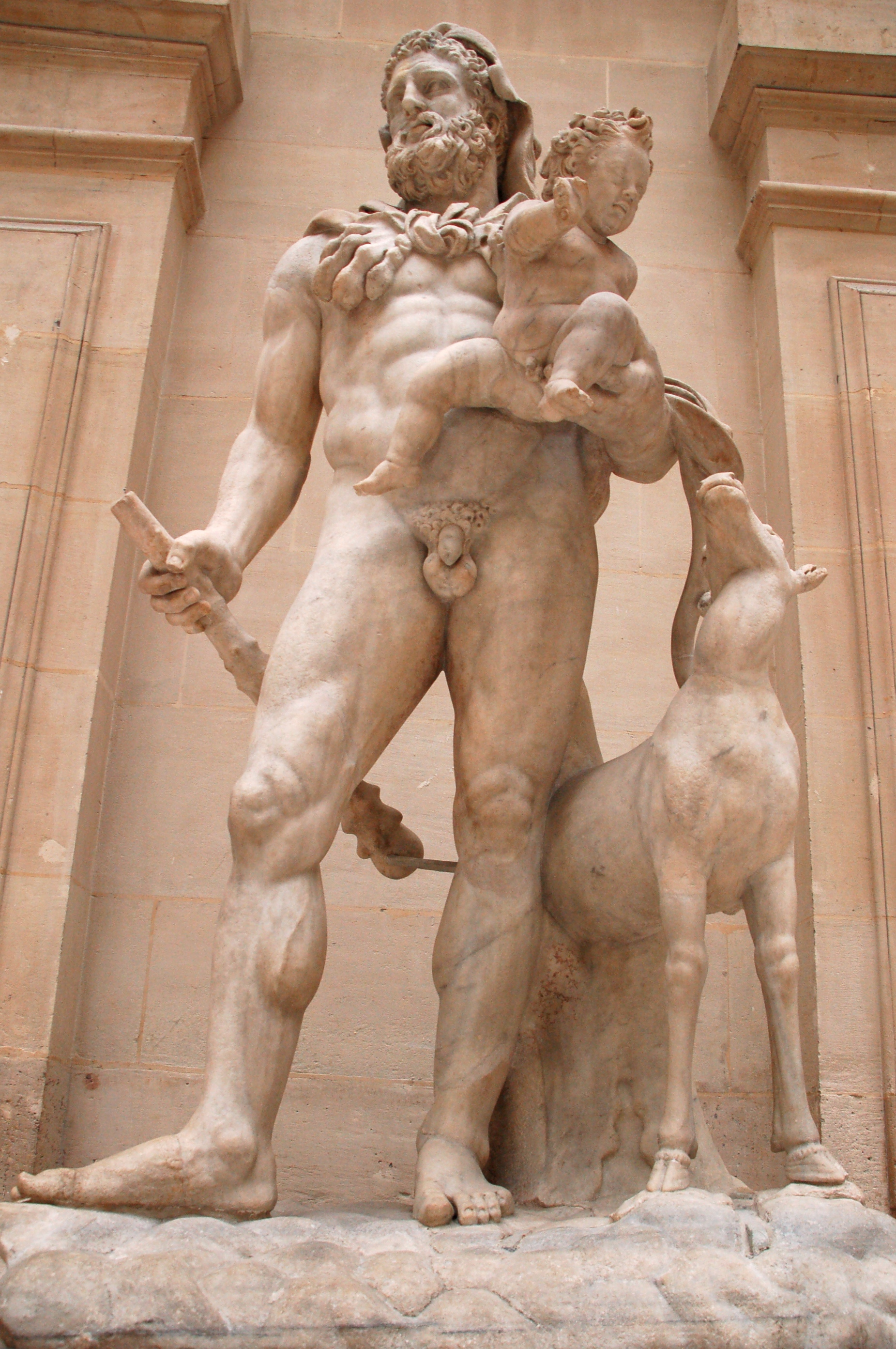 Heracles and his child Telephos. Marble, Roman copy of the 1st–2nd century CE after a Greek original of the 4th century BCE. Found in Tivoli, Italy.